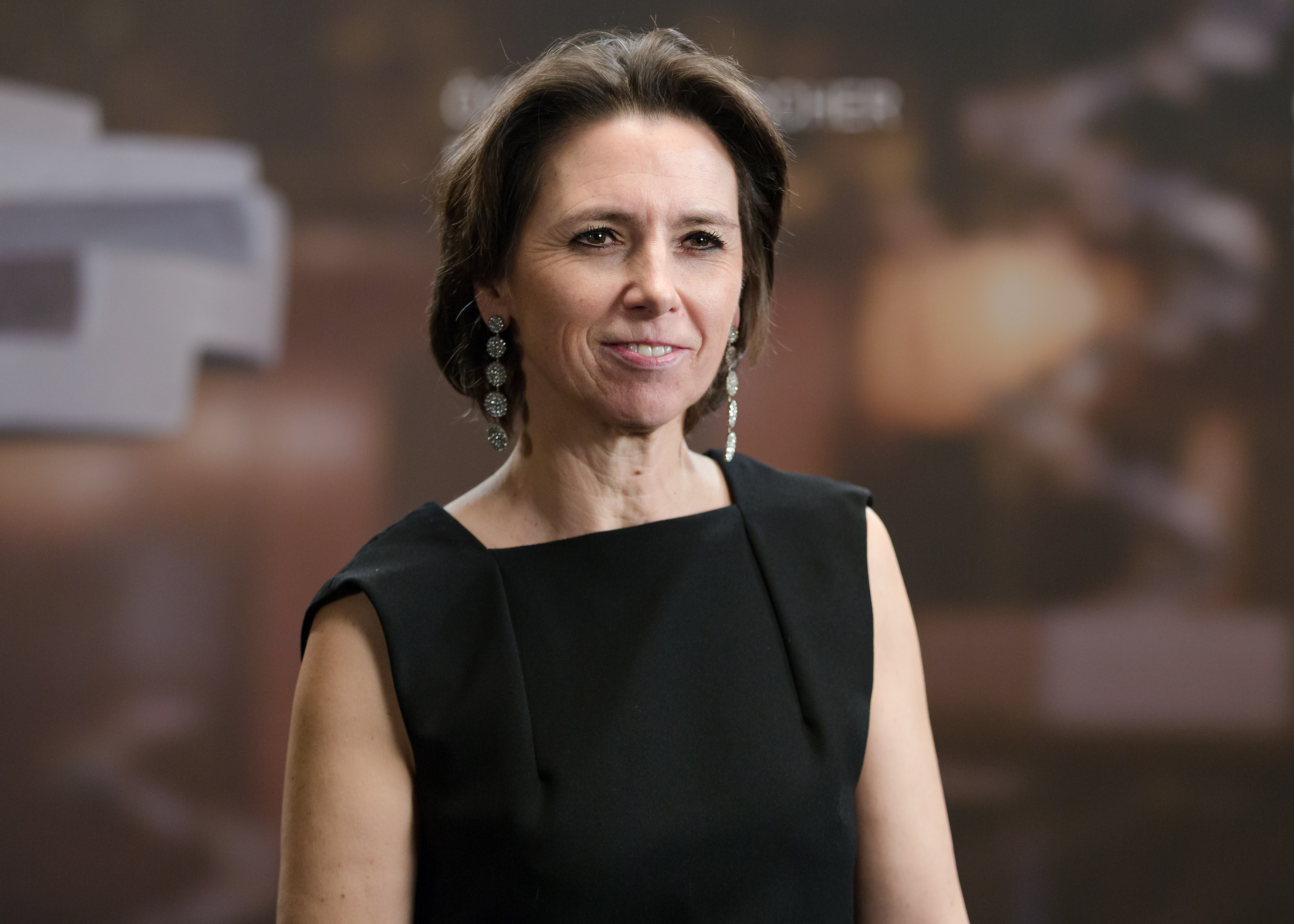 Monika Fischer-Vorauer, theatrical makeup artist for Stefan Zweig: Farewell to Europe, at the Austrian Film Awards 2017 (Rathaus, Vienna,Austria).